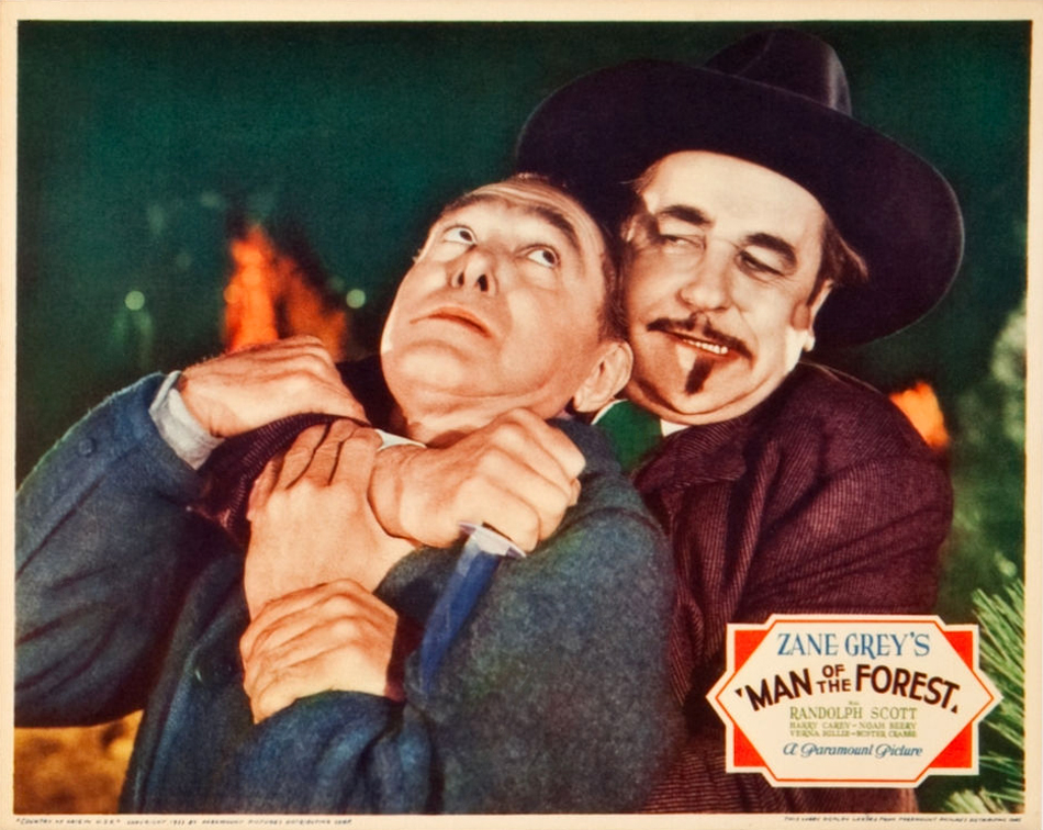 Man of the Forest (1933), directed by Henry Hathaway, with Randolph Scott and Verna Hillie.